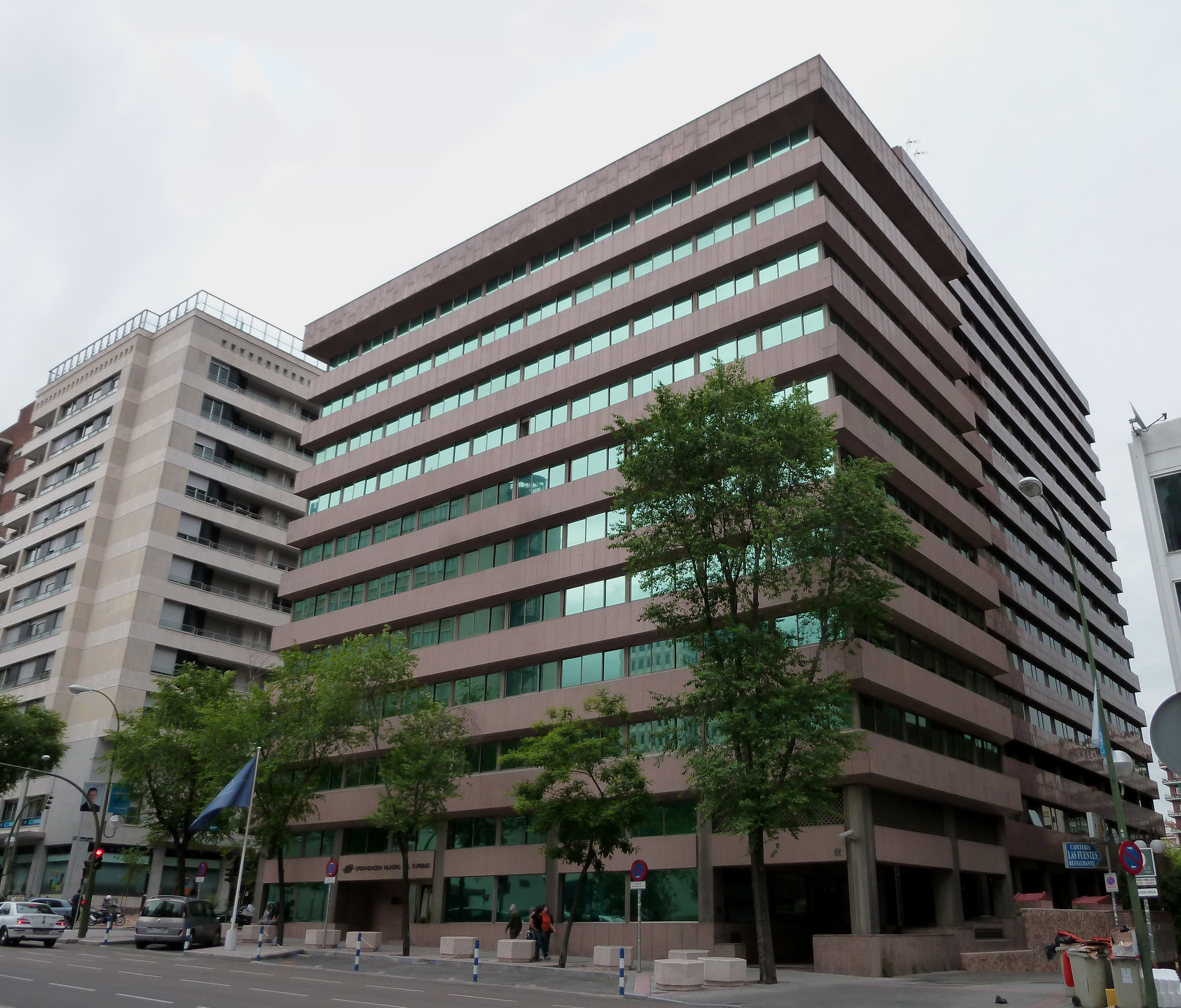 View of U.N. World Tourism Organization (UNWTO) headquarters, in Madrid (Spain).